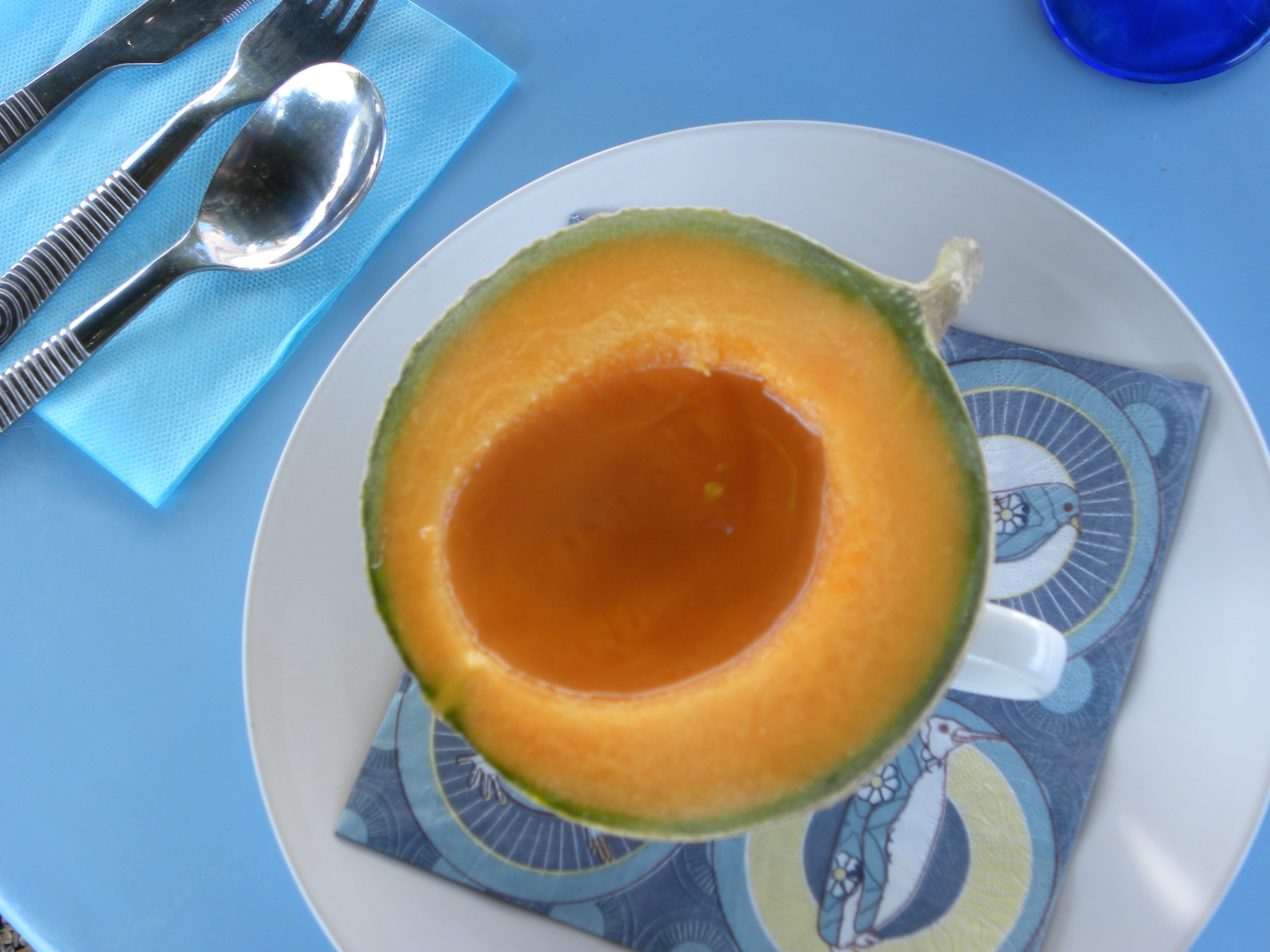 Melon with muscat wine